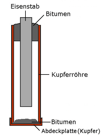 Inner System of Parthian Battery